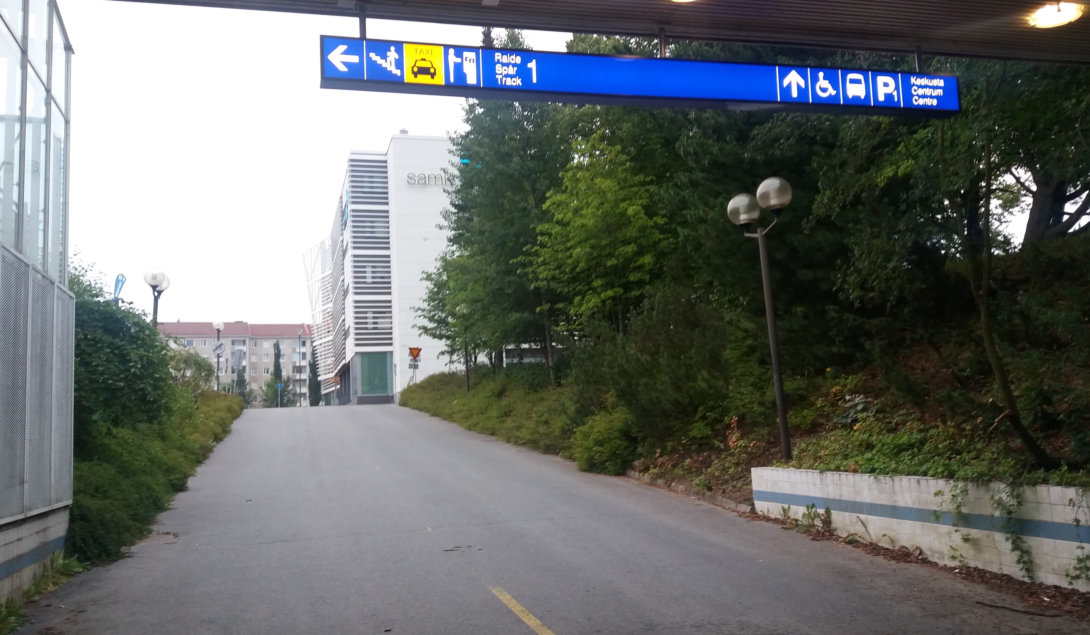 Entrance of the Porttaalitunneli tunnel by the Pori railway station in Finland.